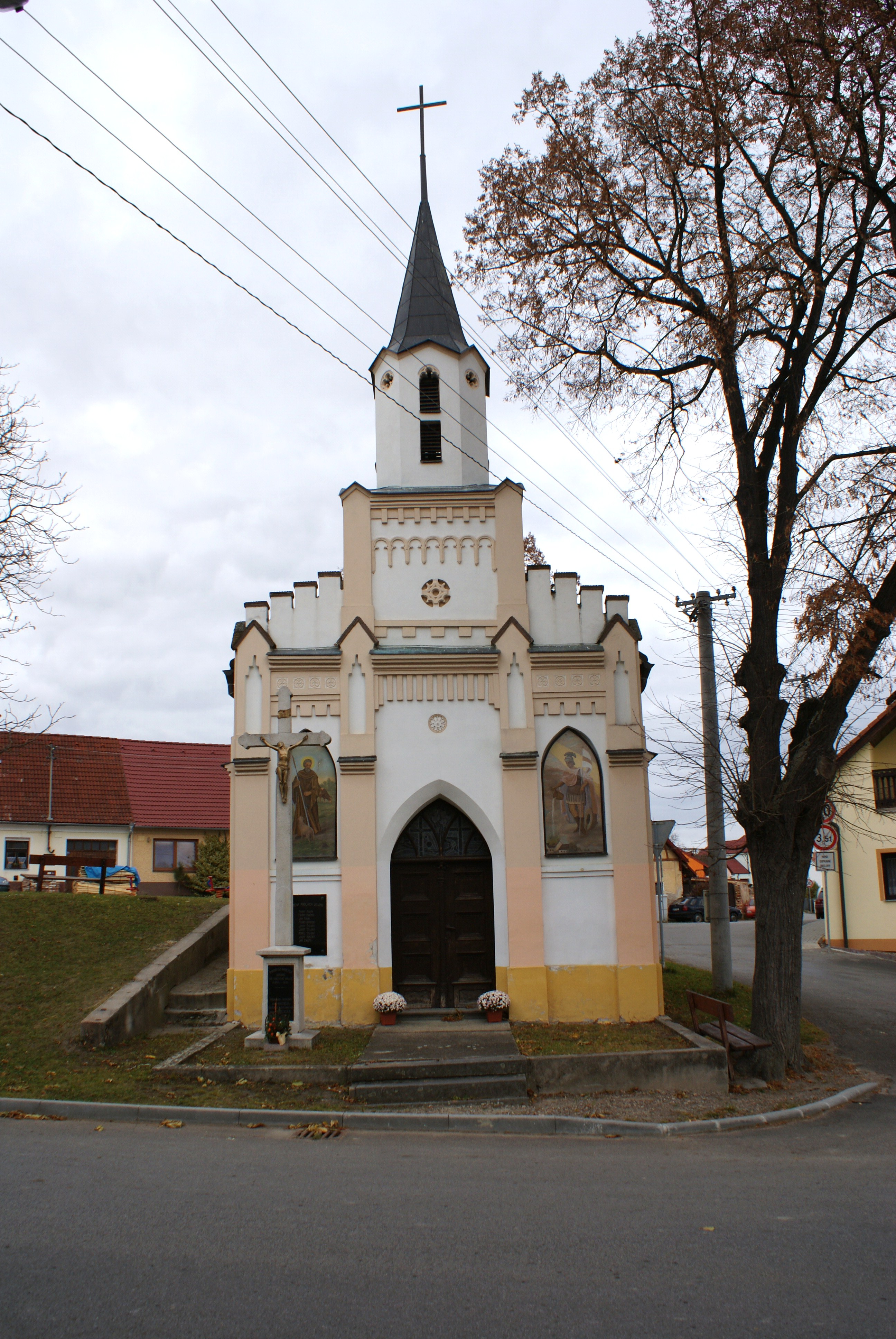 Stožice, a village in Strakonice District, Czech Rep., a chapel.